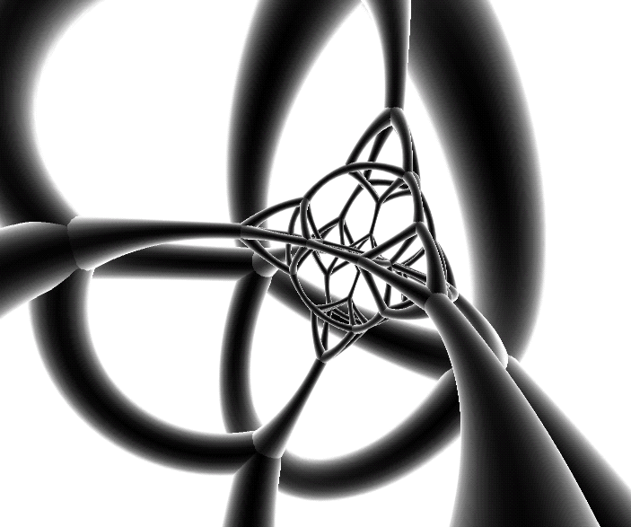 Stereographic projection of a uniform polychoron, created by me, Anton Sherwood, using Fritz Obermeyer's Jenn Truncated cross-polychoron.